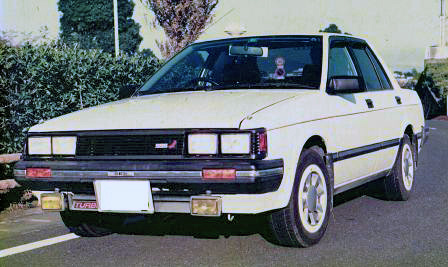 1986 Nissan Liberta Villa SSS 1.5 turbo sedan (N12), a rebadged more luxurious version of the Pulsar.